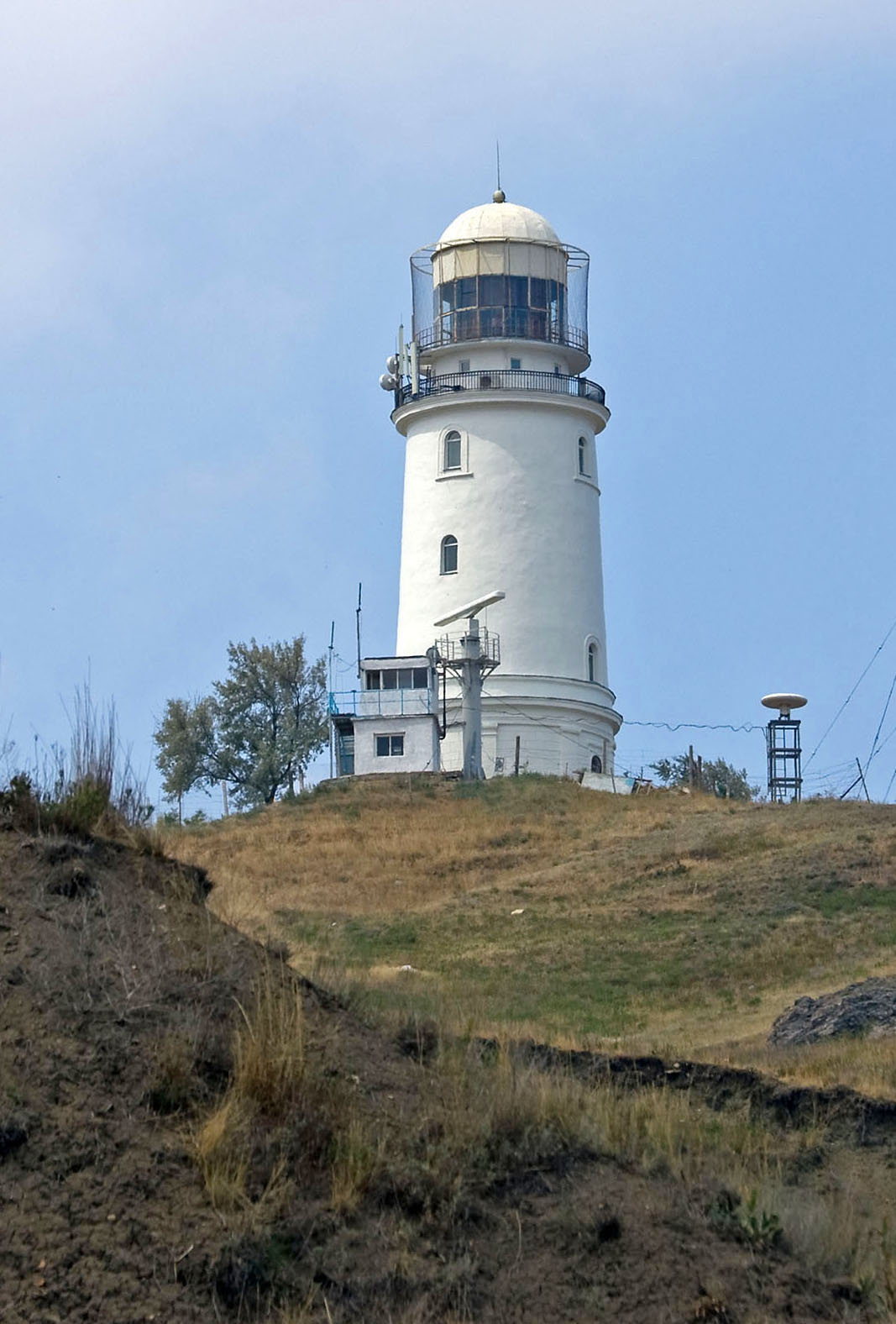 Kerch, Yenikale Lighthouse